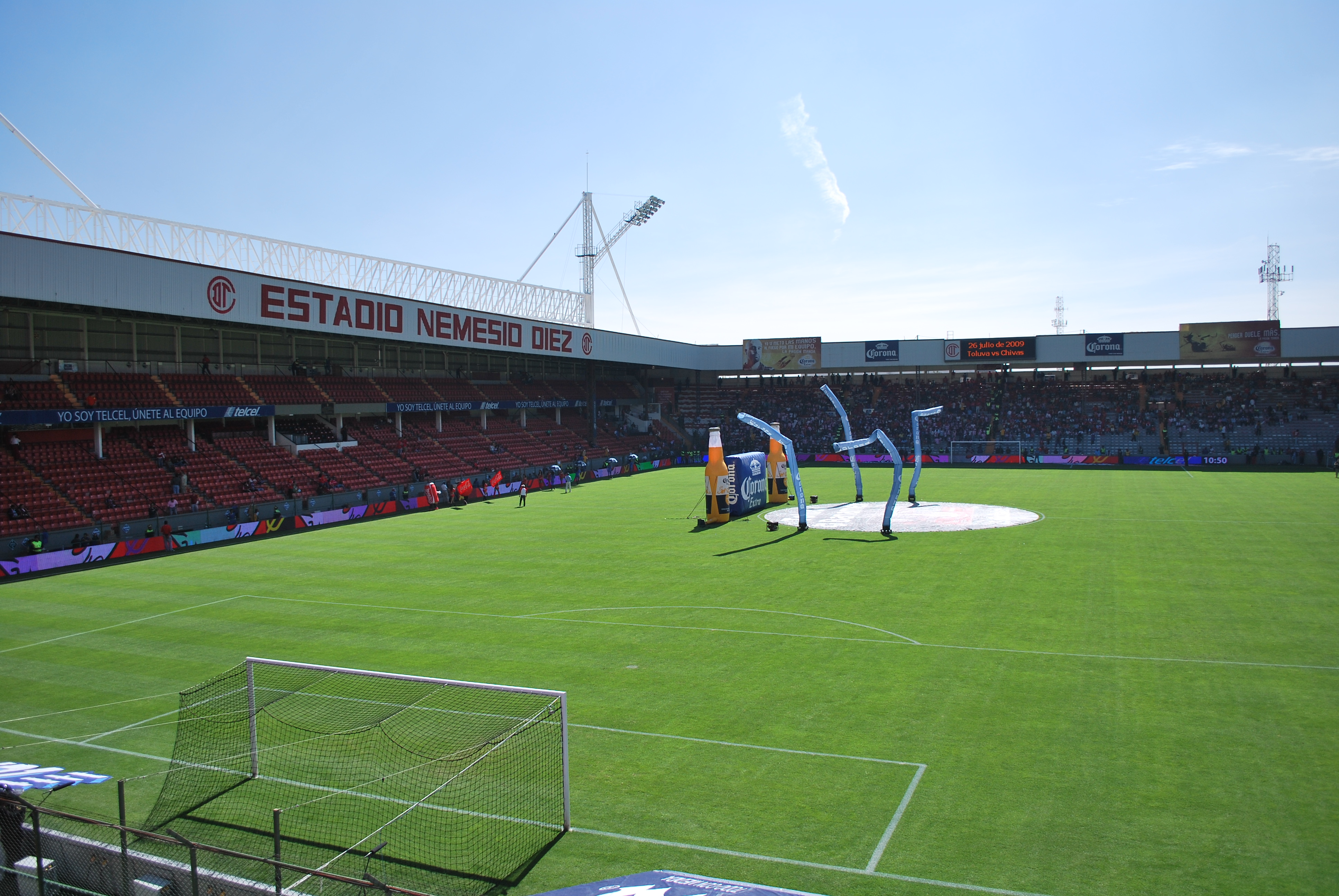 Nemesio Diez Stadium before the Toluca vs Chivas game on 26 July 2009 in Toluca, Mexico State